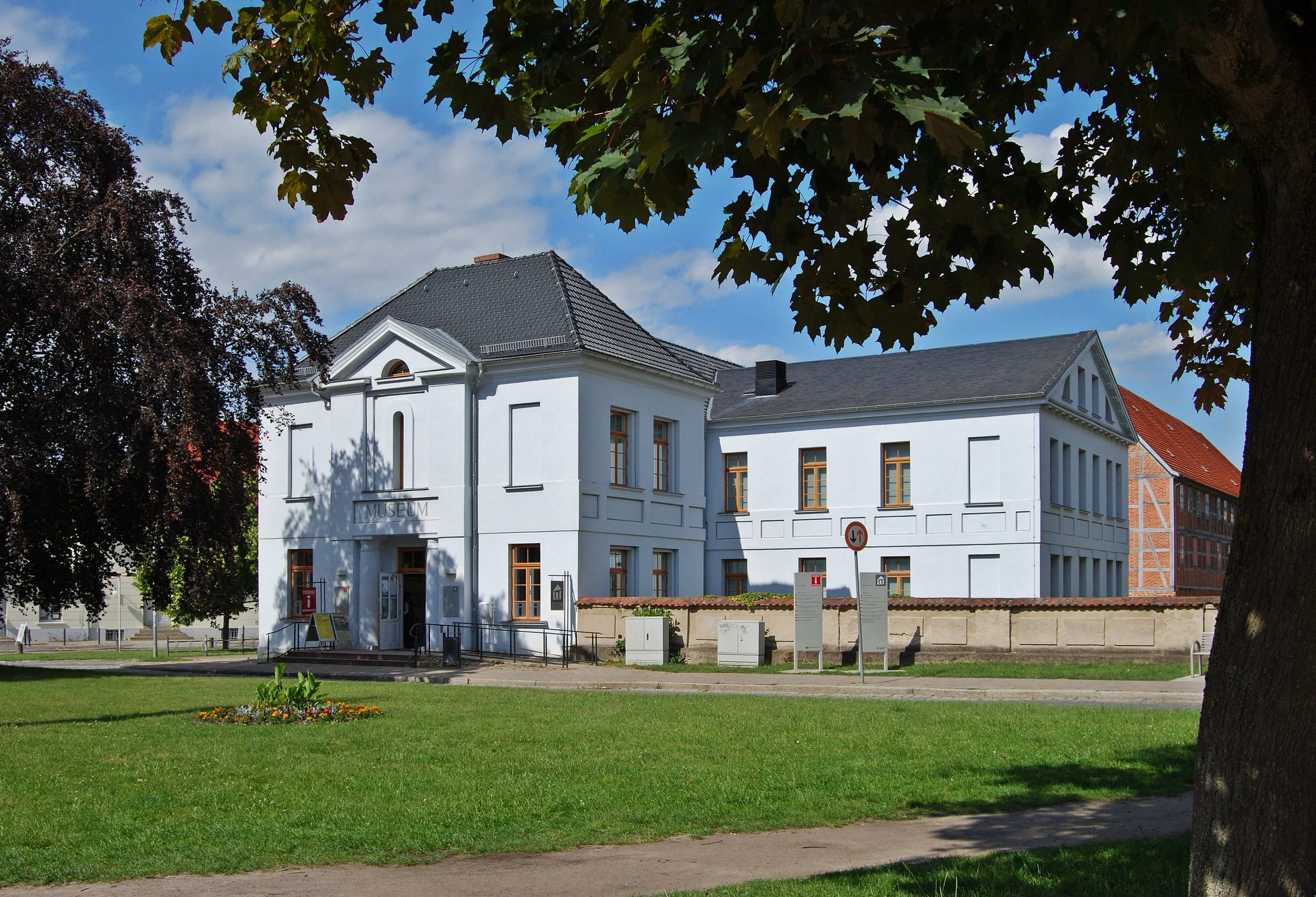 City museum of Güstrow, Mecklenburg-Vorpommern.